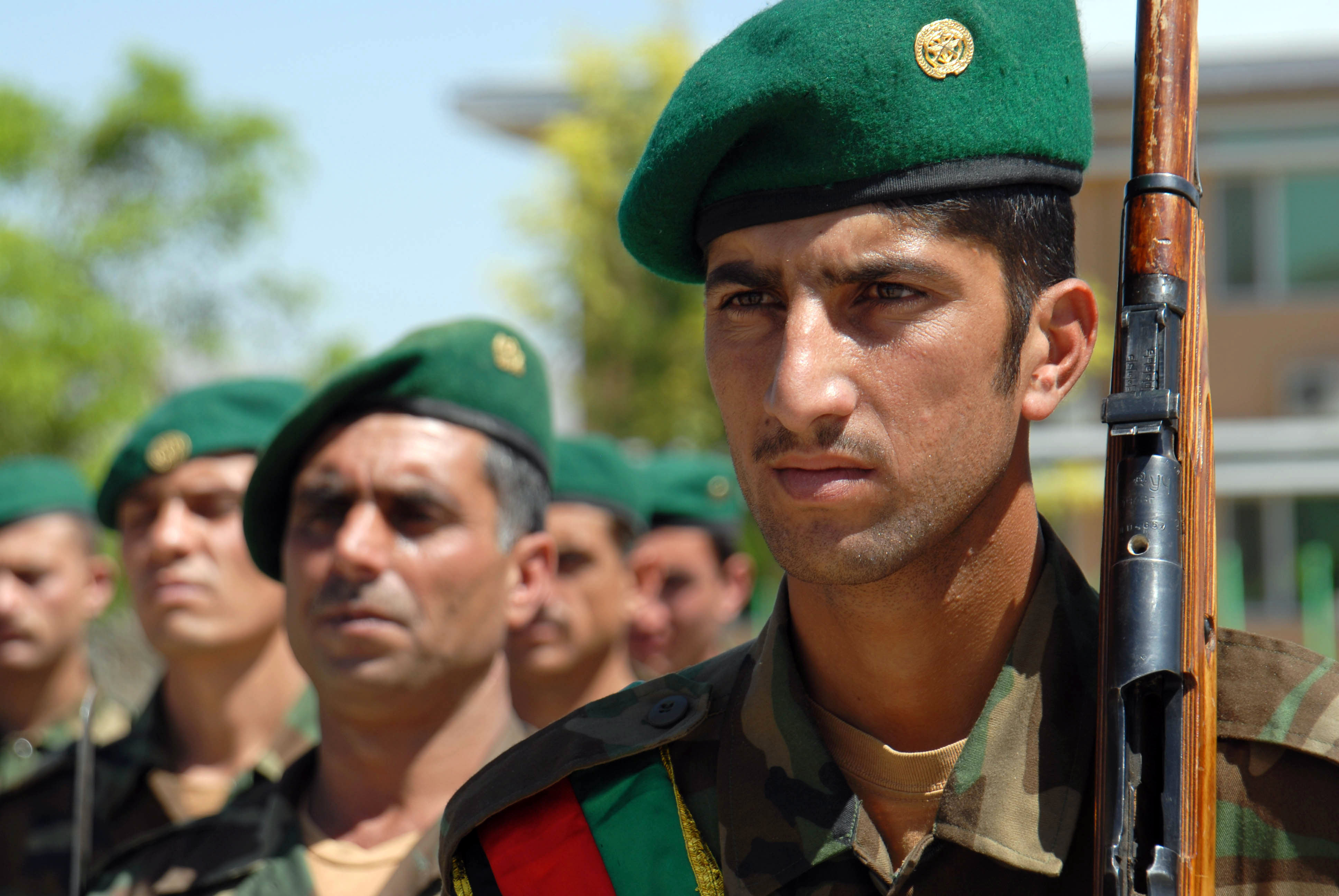 KABUL, Afghanistan (July 16, 2007) - Afghan National Army soldiers watch during the Combined Security Transition Command - Afghanistan change of command in Kabul, July 16, 2007. U.S. Army Brig. Gen. Robert W. Cone took command from Maj. Gen. Robert E. Durbin. Photo by Petty Officer 1st Class Scott Cohen, U.S. Navy.